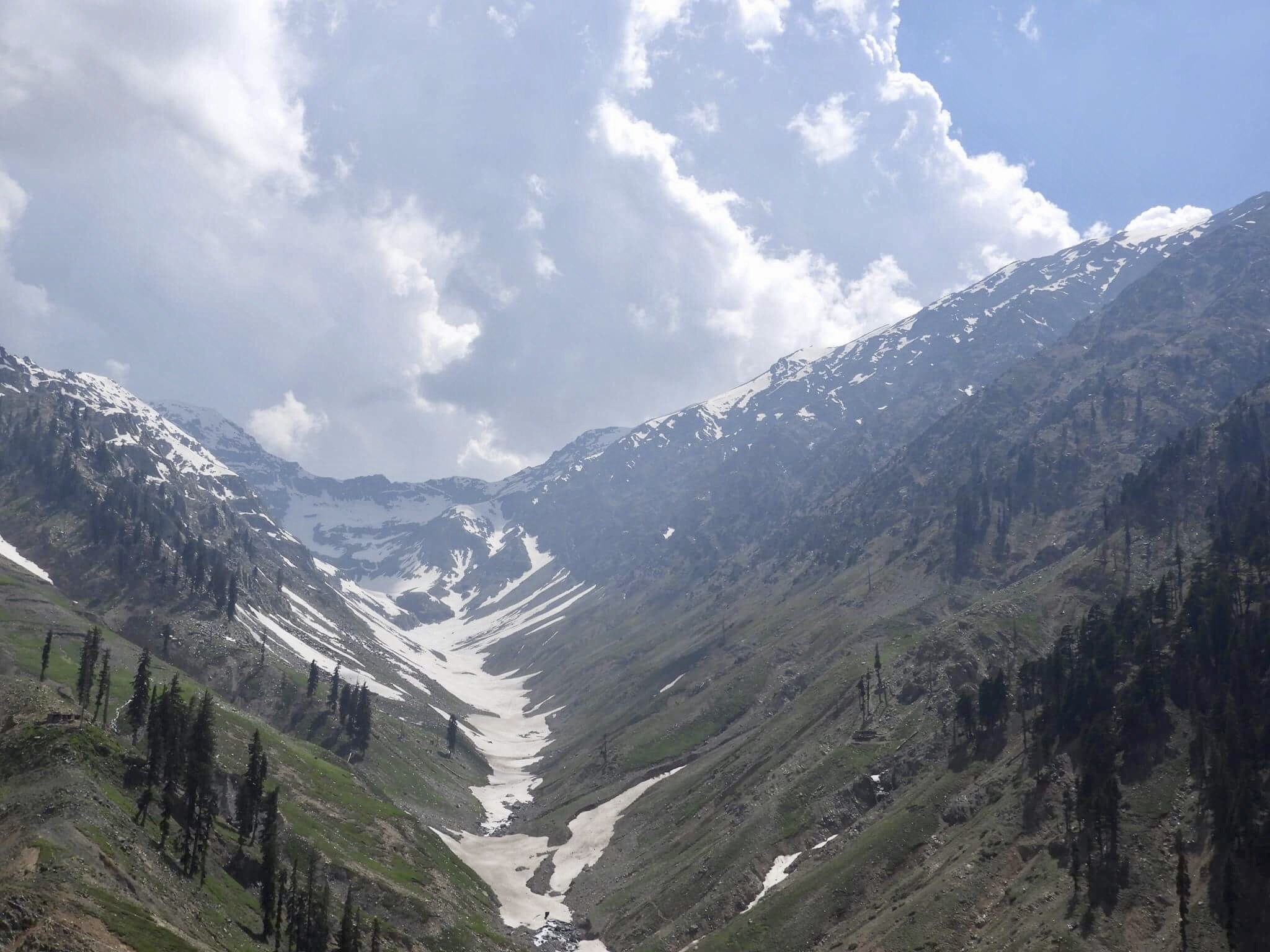 Kafiristan